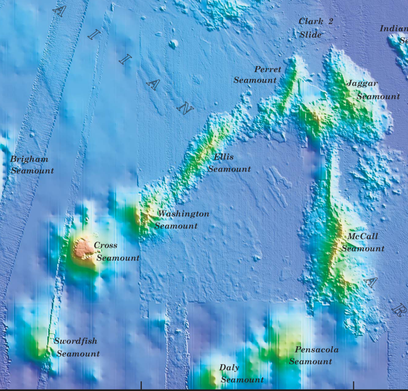 Bathymetric map of the Hawaiian Islands